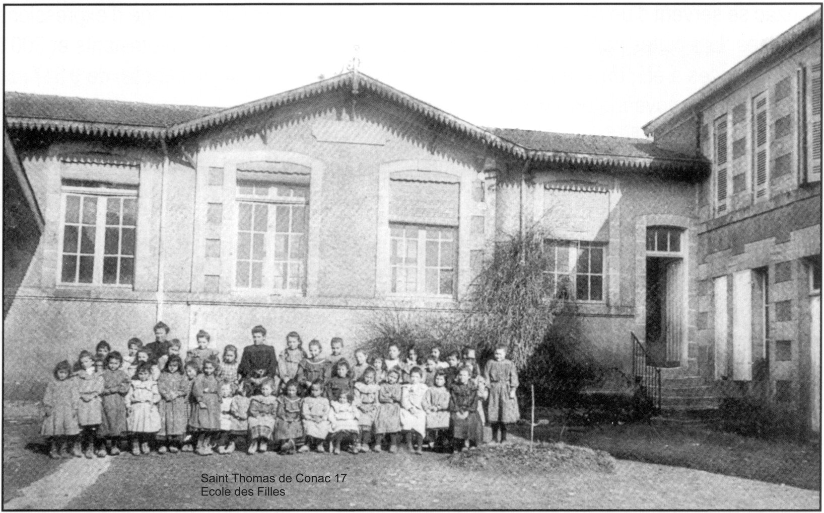 Girls school of St thomas de conac